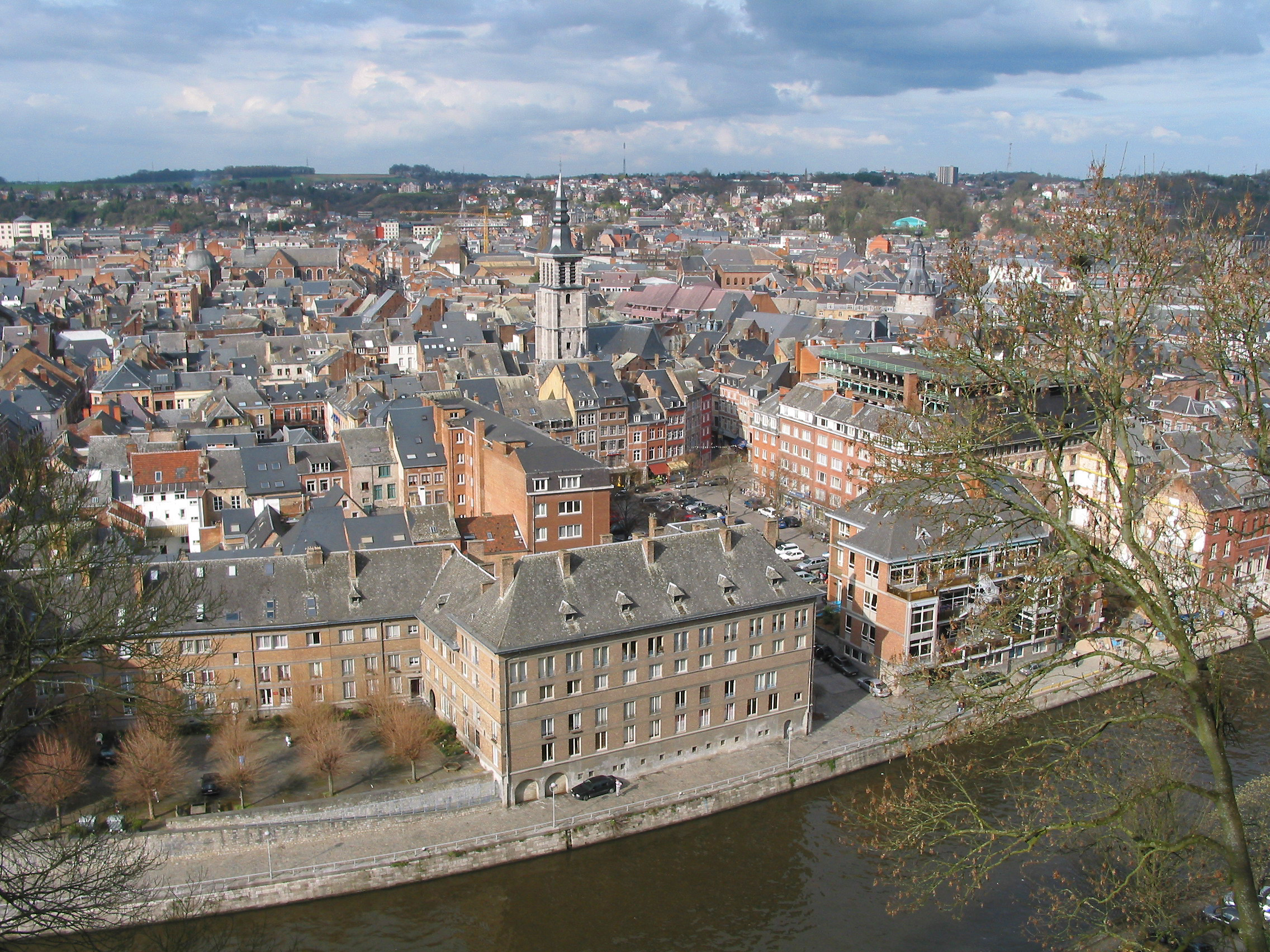 Namur, the Sambre river, the old city and the St. Jacques church and the belfry.